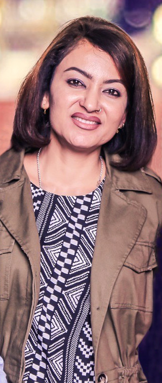 Jharana Thapa at premier of Nepali movie A Mero Hajur 2.